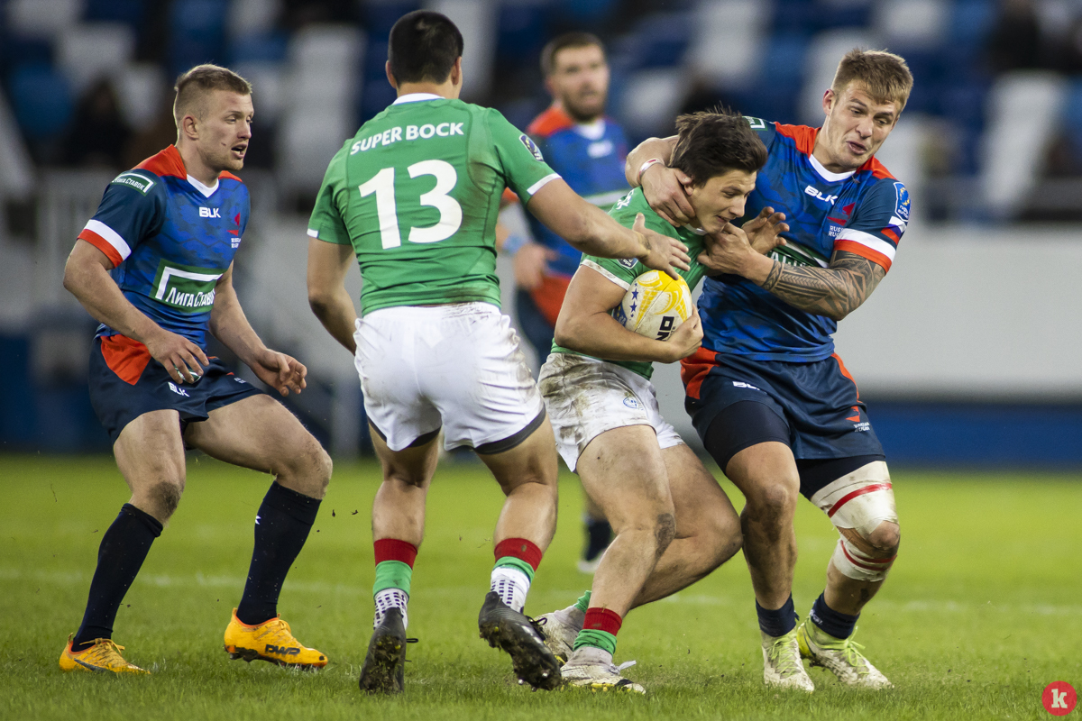 2019-2020 REIC Men XV: Russia vs. Portugal (2020-02-22)